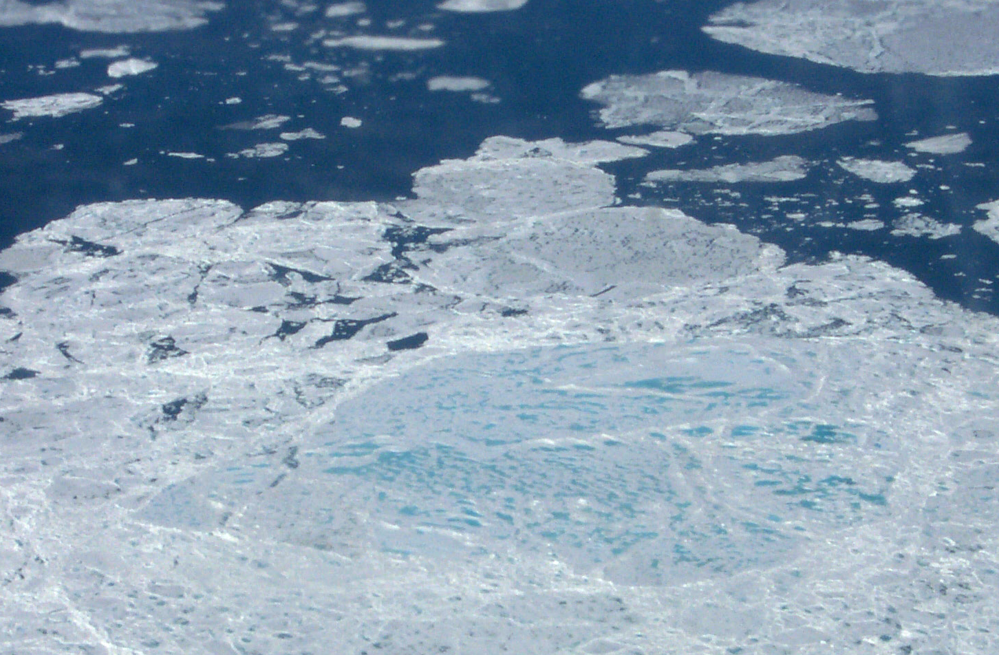 Melt Ponds on Sea Ice, June 27, 2000 This image shows digital true-color images of Baffin Bay taken from a Navy research aircraft participating in the Meltpond2000 experiment. The light blue areas show ponds of water on the sea ice, white areas are sea ice without ponds, and the darker areas depict ice-free water. Credit: NASA